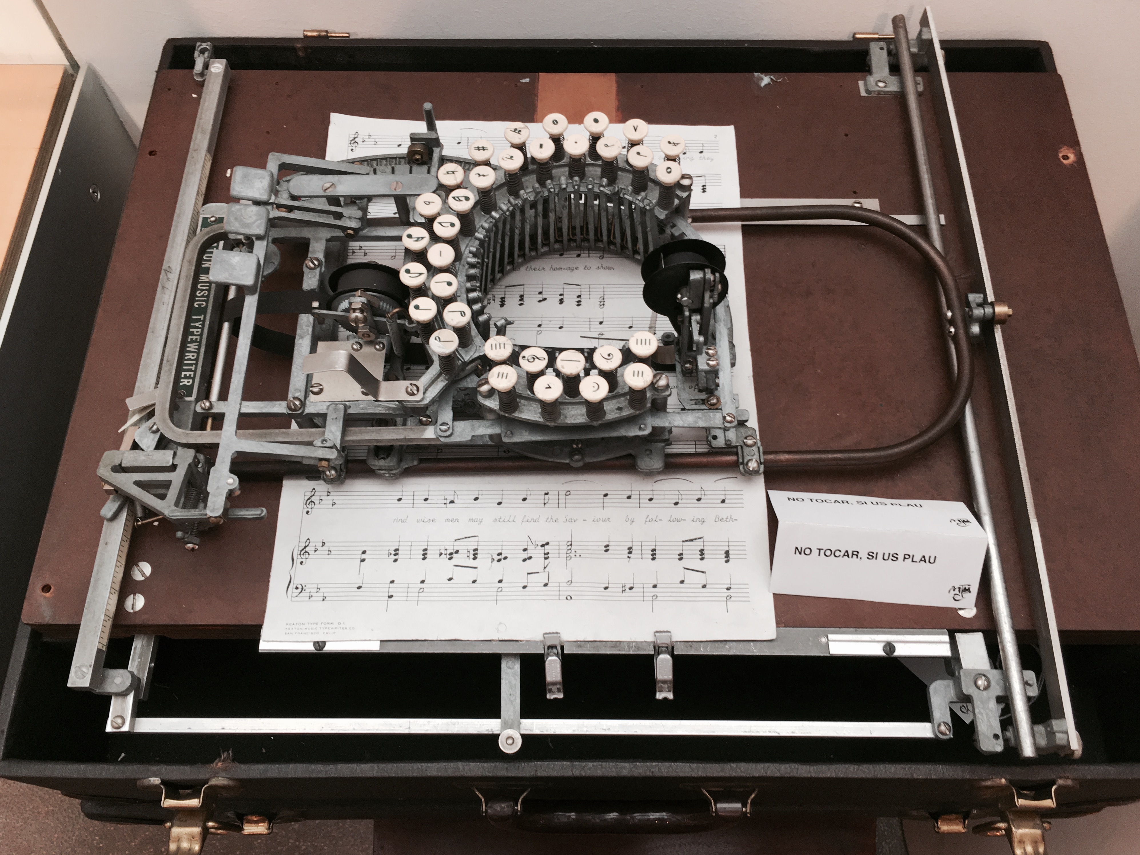 Typewriter exhibition in the Technical Museum in Empordà, Figueres, Catalonia